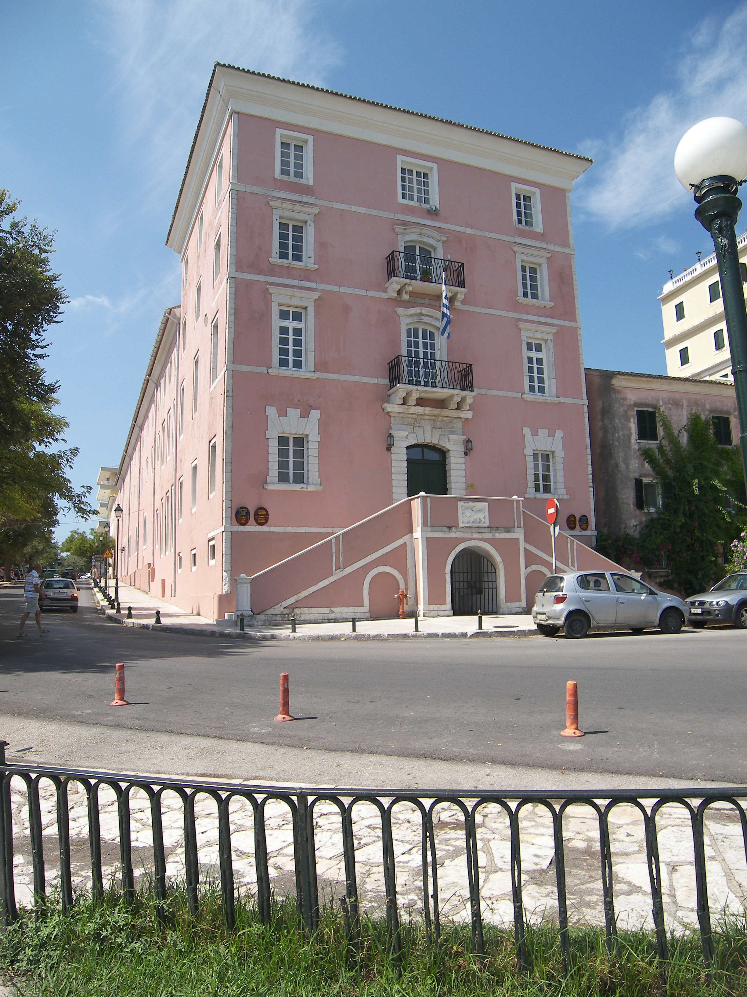 File:Ionian Academy in Daylight.JPG